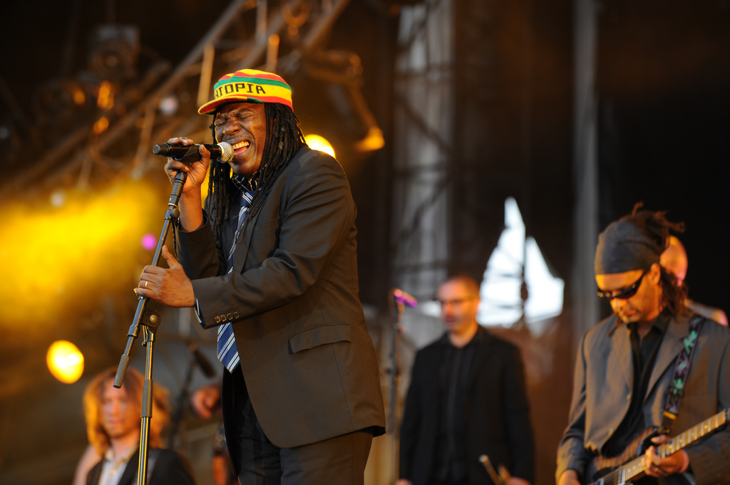 African reggae singer Alpha Blondy at Solidays Festival, 2008 (Hippodrome de Longchamp, France)